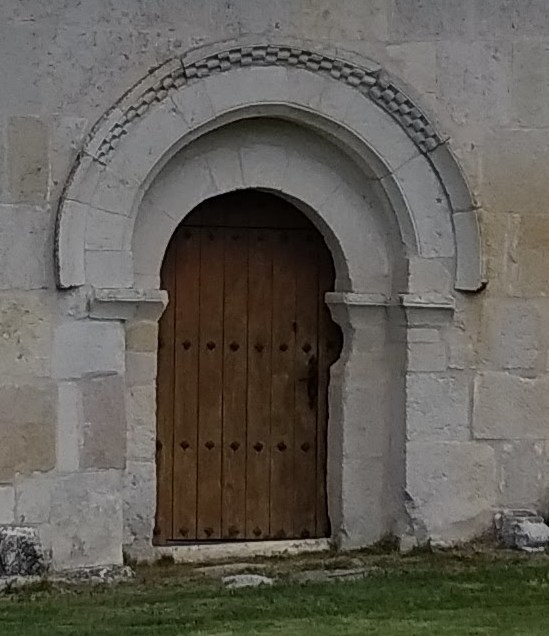 Andra Mari church, Uribarri Harana, the Basque Country, romanic, 12th cent.